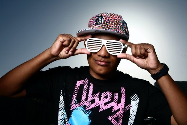 Shutter Shades Inc. Founder & CEO Donald Todd Wilkerson